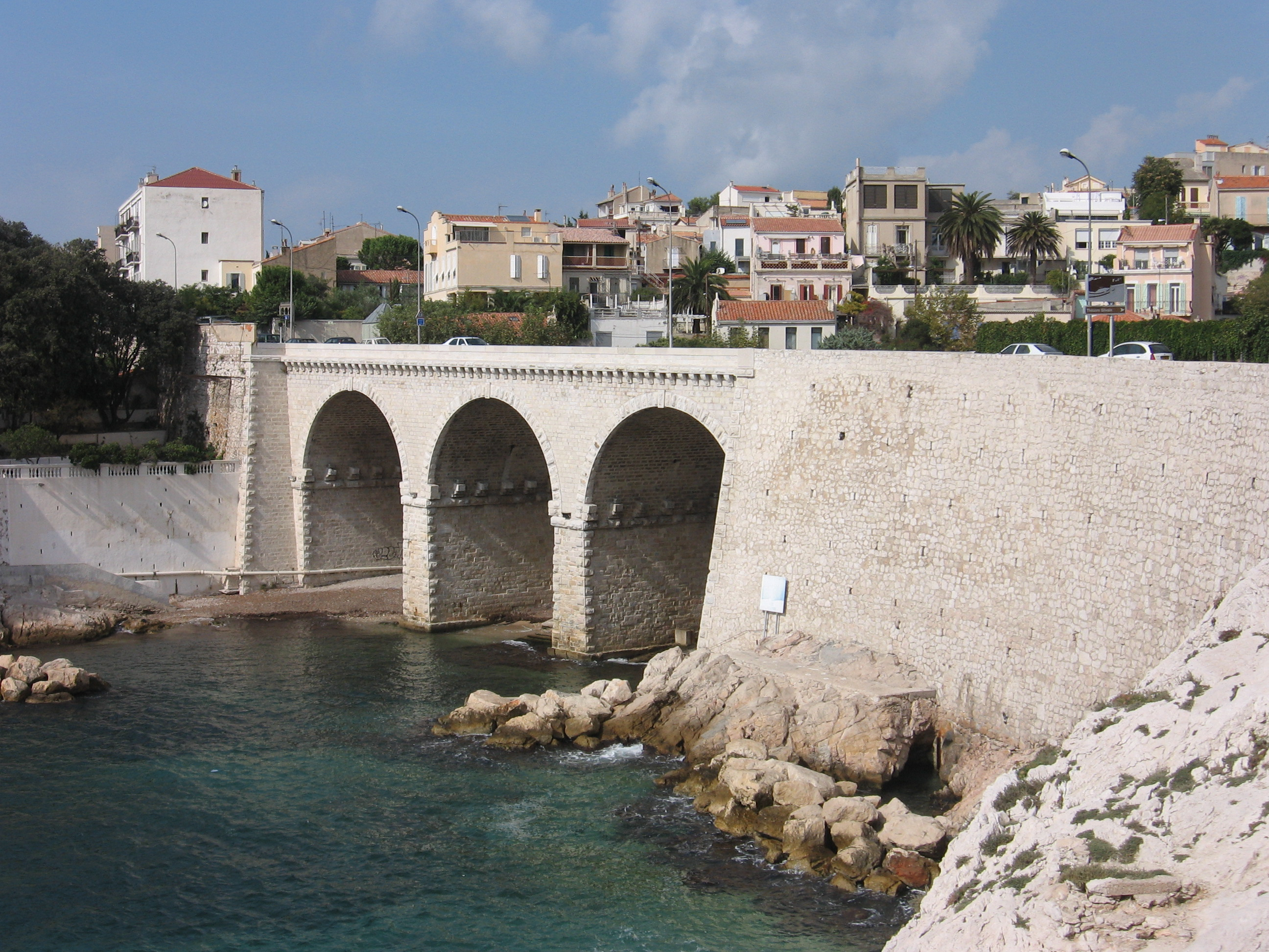 Corniche Président John Kennedy, bridge